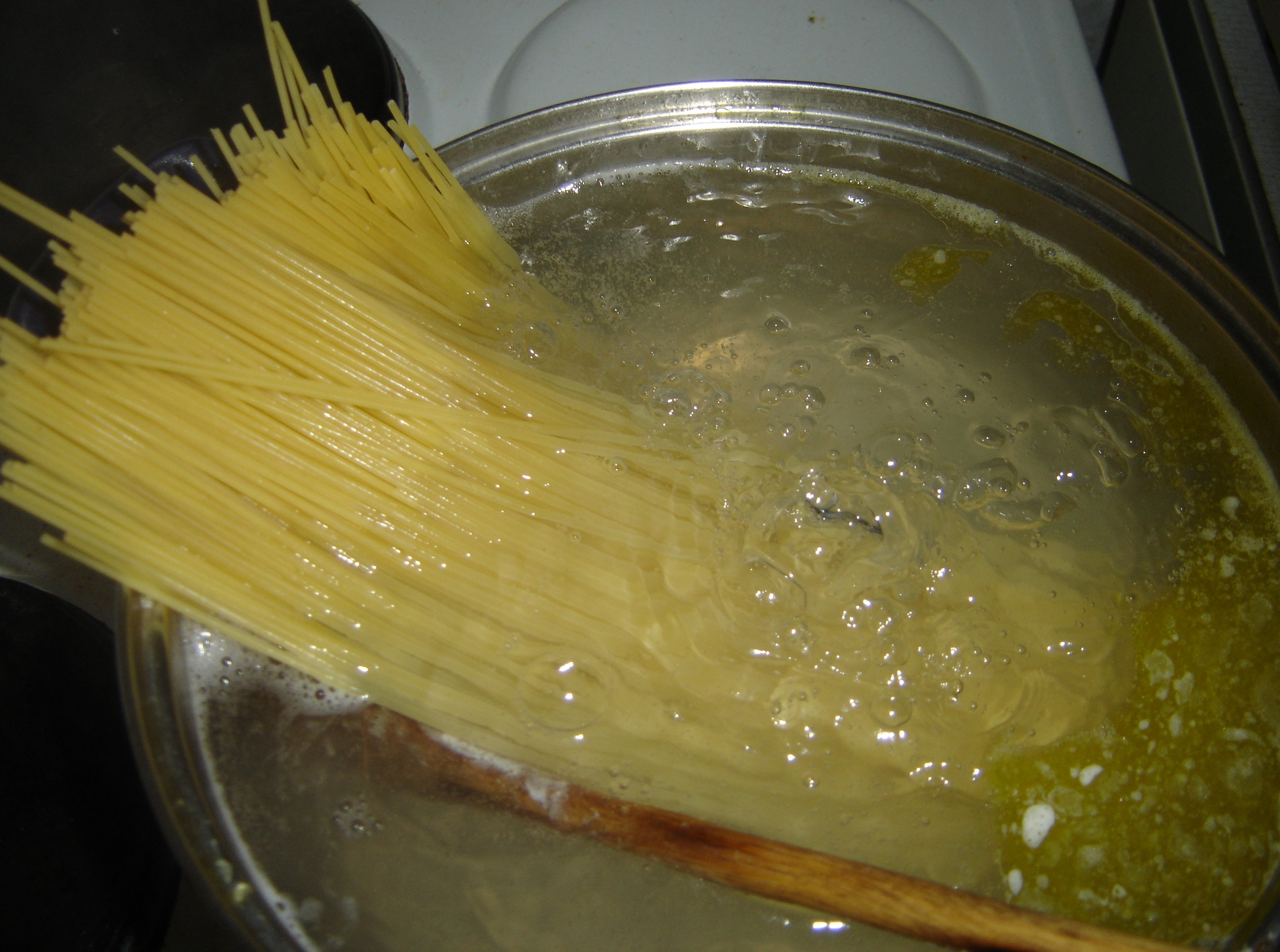 Cooking spaghetti. Photo by Eloquence.